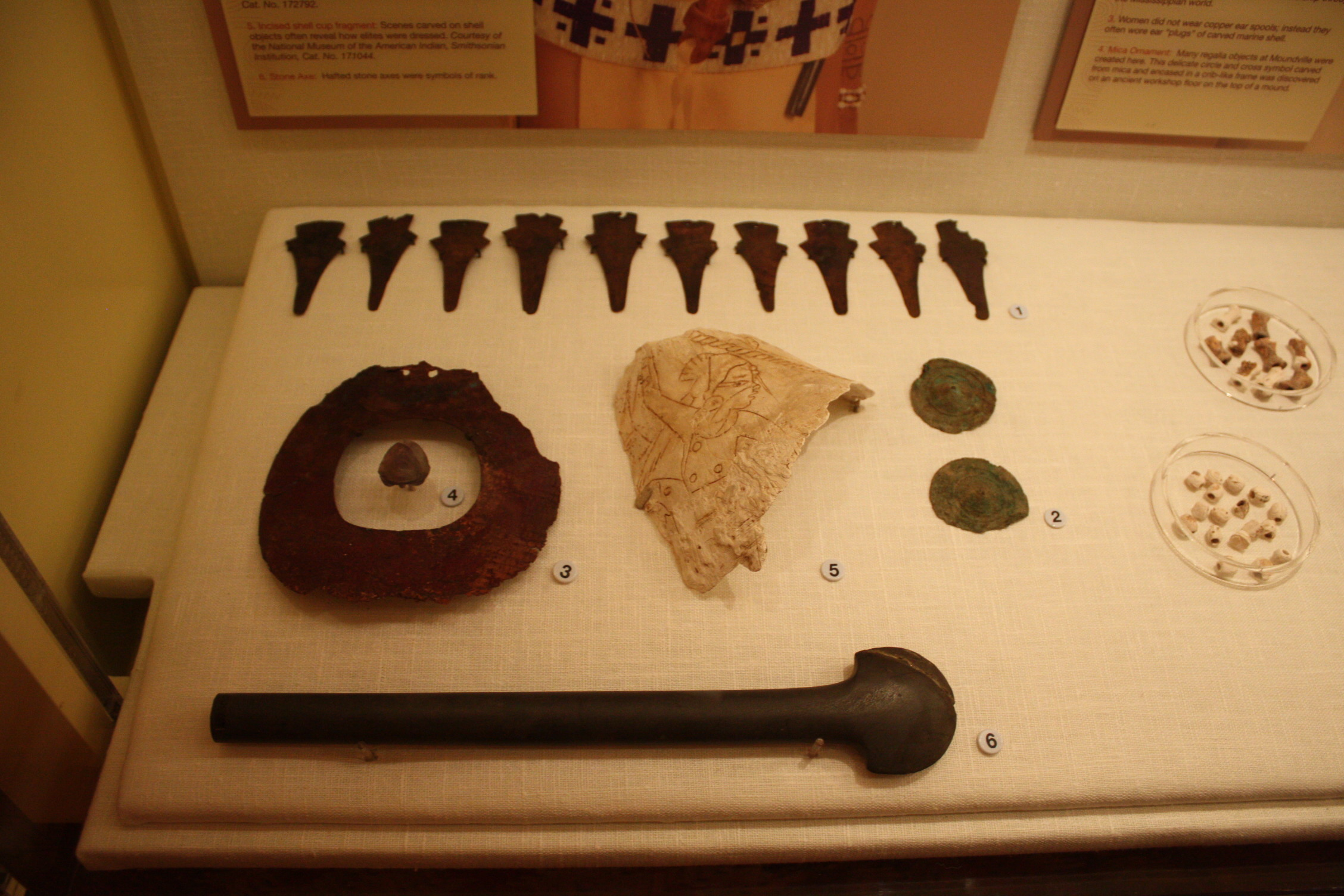 Various artifacts, including multiple mace shaped copper headdress ornaments (#1), a copper gorget (#3), a shell cup fragment (#5), and a polished stone spud (#6), excavated at the Moundville Archaeological Park in Moundville, Hale County, Alabama, United States. Housed on-site in the Jones Archaeological Museum.